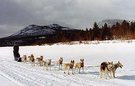 Seppala sleddog team in Yukon Photo taken ca. 1994 by Isa Boucher (Seppala Kennels, Whitehorse, YT, Canada) of a ten-dog team of Seppala Siberian Sleddogs driven by J. Jeffrey Bragg. Location: Mud Lake, a small lake west of Lake Laberge and the Klondike Highway, some twenty miles north of Whitehorse.